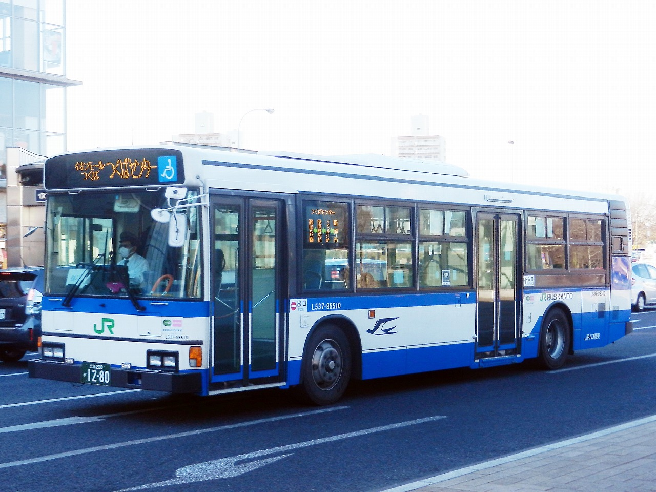 JR bus Kanto (Tsuchiura branch) Hino Blue Ribbon Nonstep bus (KC-HU2PPCE)HitachinoUshiku station-Tsukuba center (TX Tsukuba station)